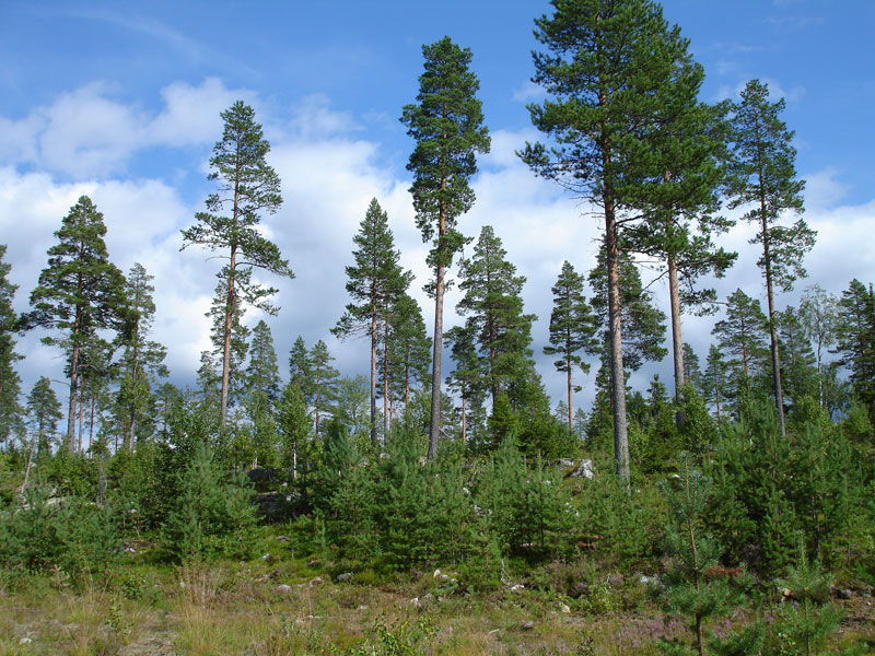 Pines left for natural regeneration on clear-cut SO Stenberg, Nordmalings municipality, Sweden.